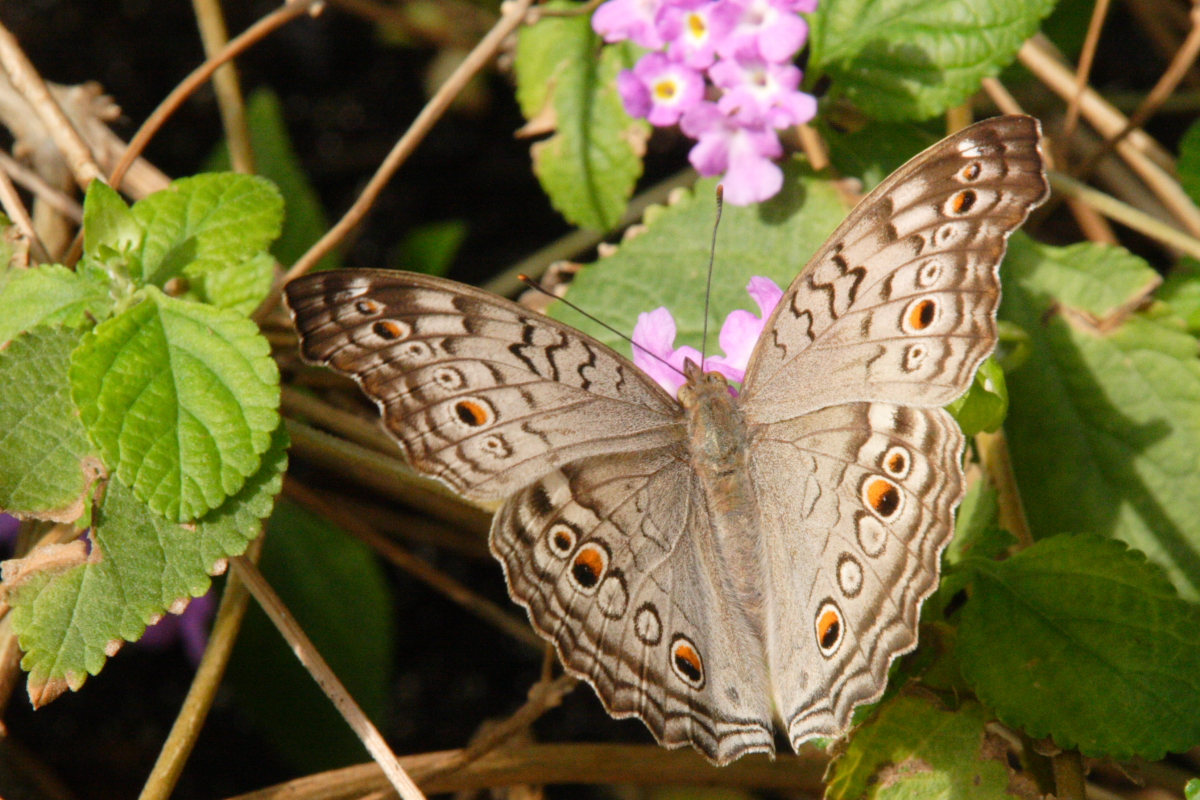 Junonia atlites - Gray pansy, Asia, Monsanto Insectarium, St. Louis Zoo